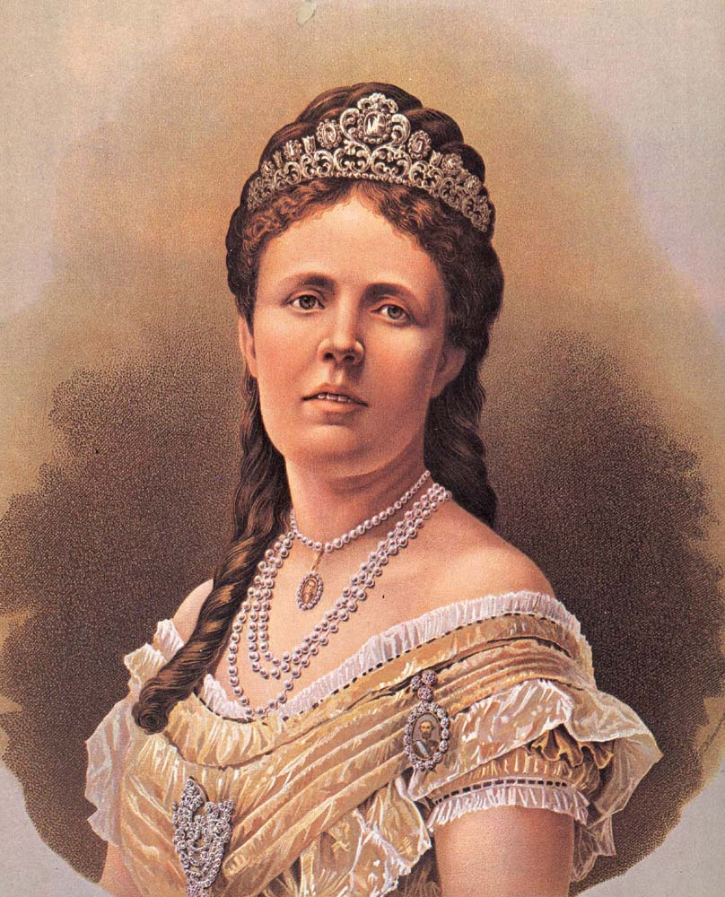 Portrait of Queen Sofia of Sweden and Norway (1836-1913)